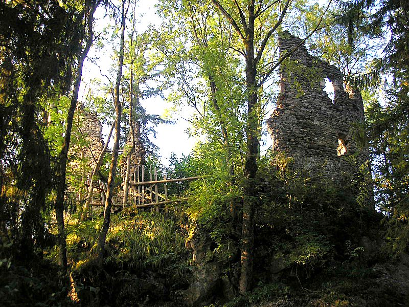 Fluhenstein castle (Berghofen, Stadt Sonthofen, Landkreis Oberallgäu, Bavaria, Germany). View from the south